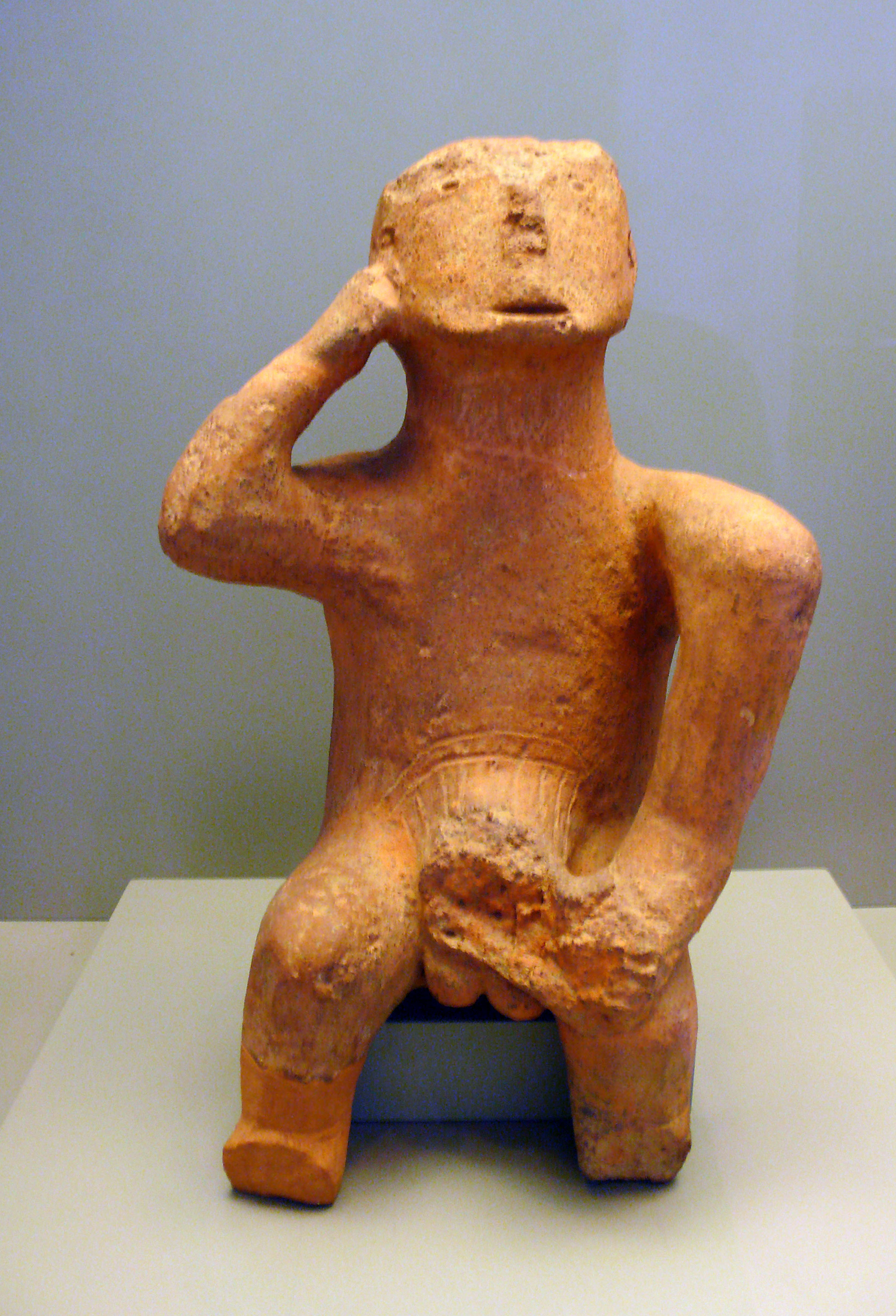 Clay male figurine, known as the "Thinker". Late Neolithic (4500-3300 BC). The label reads: "The Thinker". National Archaeological Museum (Link to this piece (Inv. 5894) in the NAMA Website). Large solid figurine of a seated man from the district of Karditsa, Thesaly. It is unique, the largest Neolithic work to date, verging on full sculpture. It is clumsy, in detail, but the individual elements make up the figure of a robust man with direct gaze and manly bearing at a moment of action. The pronounced ithyphallic feature - for the most part broken - together with the size of the figurine point to its cultic character. It may well have represented an agrarian deity associated with the fertility of the earth.